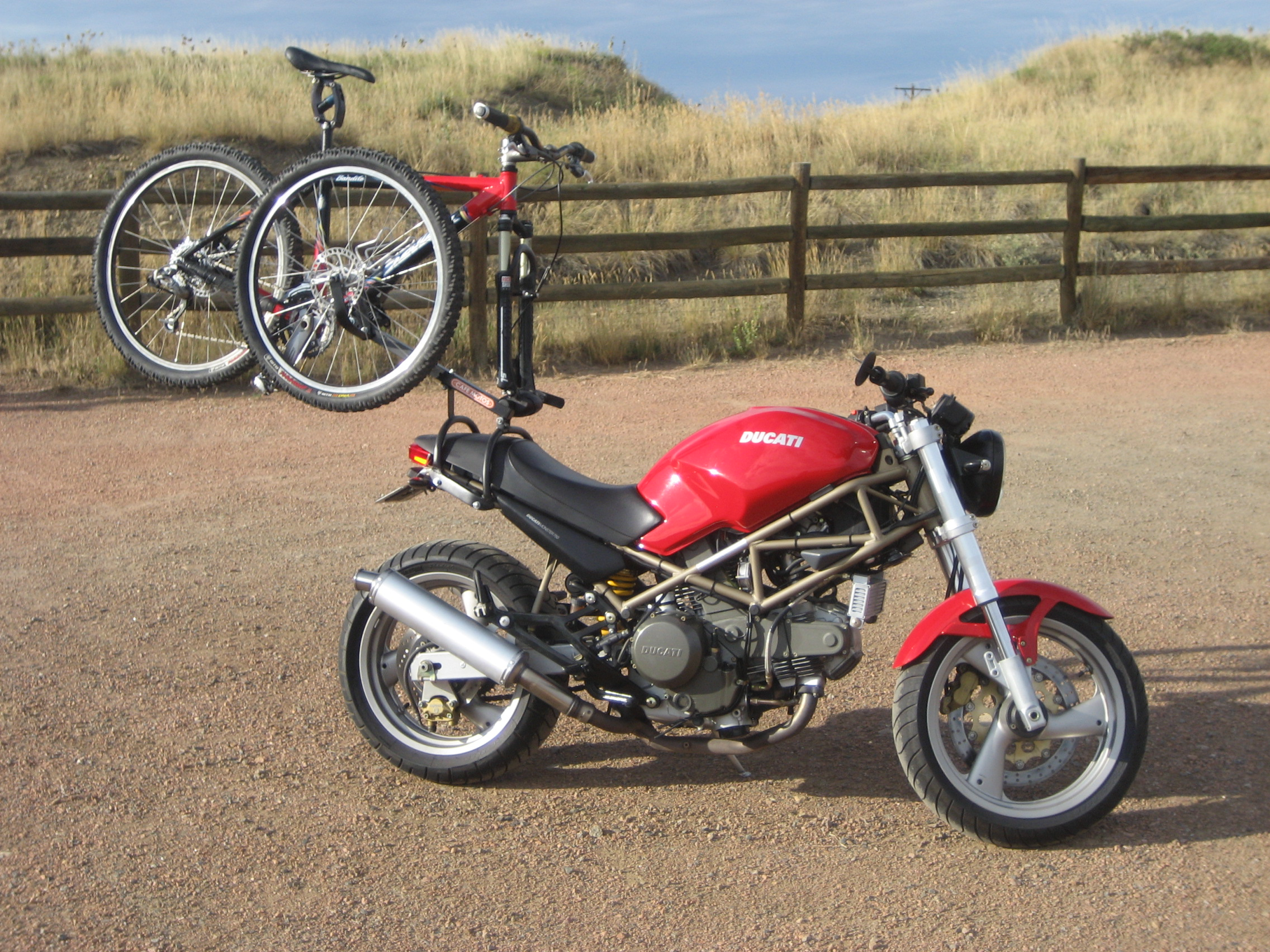 Johnny Rack, Inc.